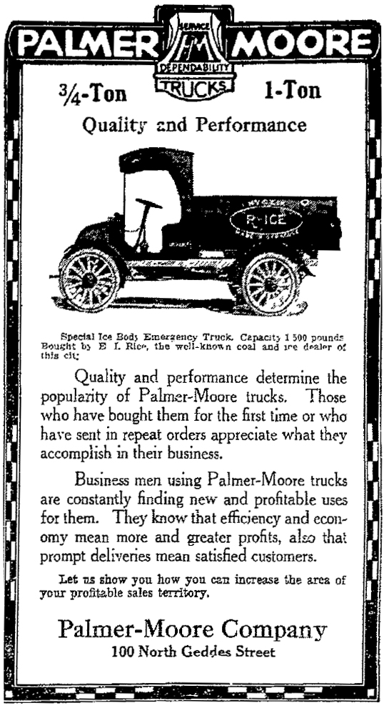 Palmer-Moore Company - Advertisement 1916 - Special Ice Body Emergency Truck